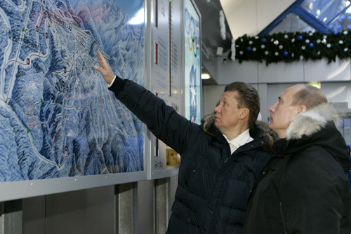 SOCHI. With Gazprom\'s Chairman of the Board Aleksei Miller at the opening ceremony of the Krasnaya Polyana ski resort.